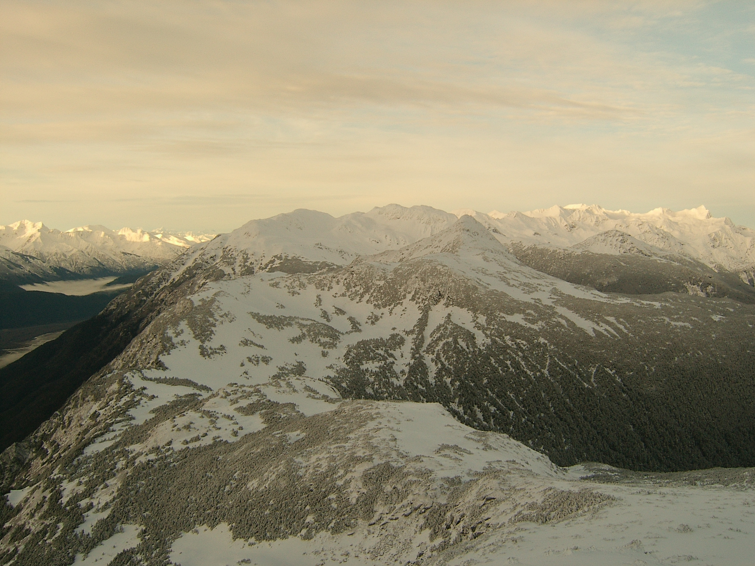 A picture of the Takshanuk Mountains.